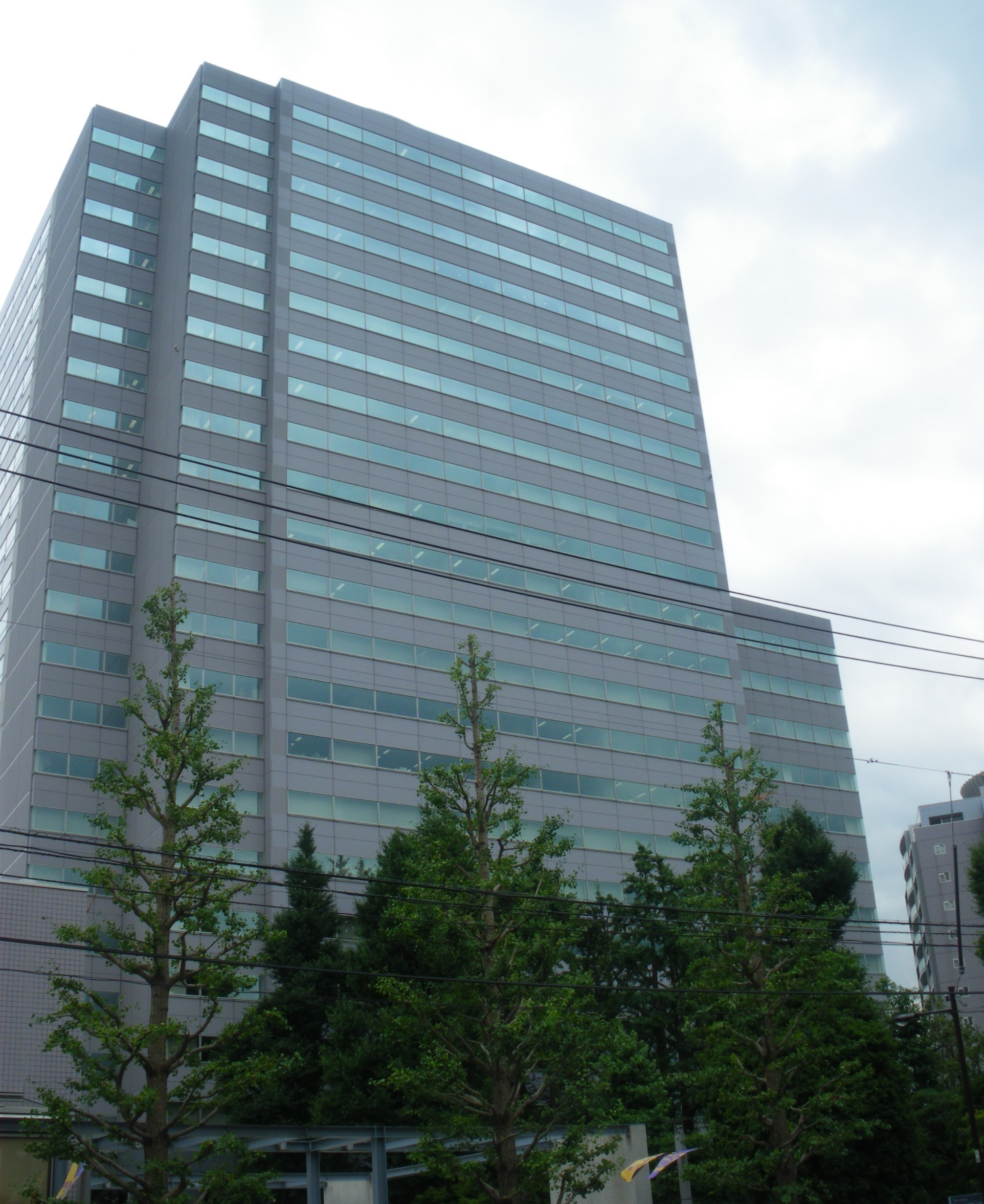 Bunkyo Green Court(Honkomagome,Bunkyo,Tokyo)